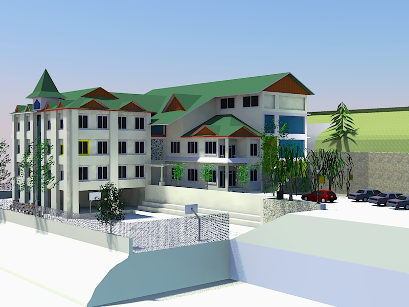 School Building